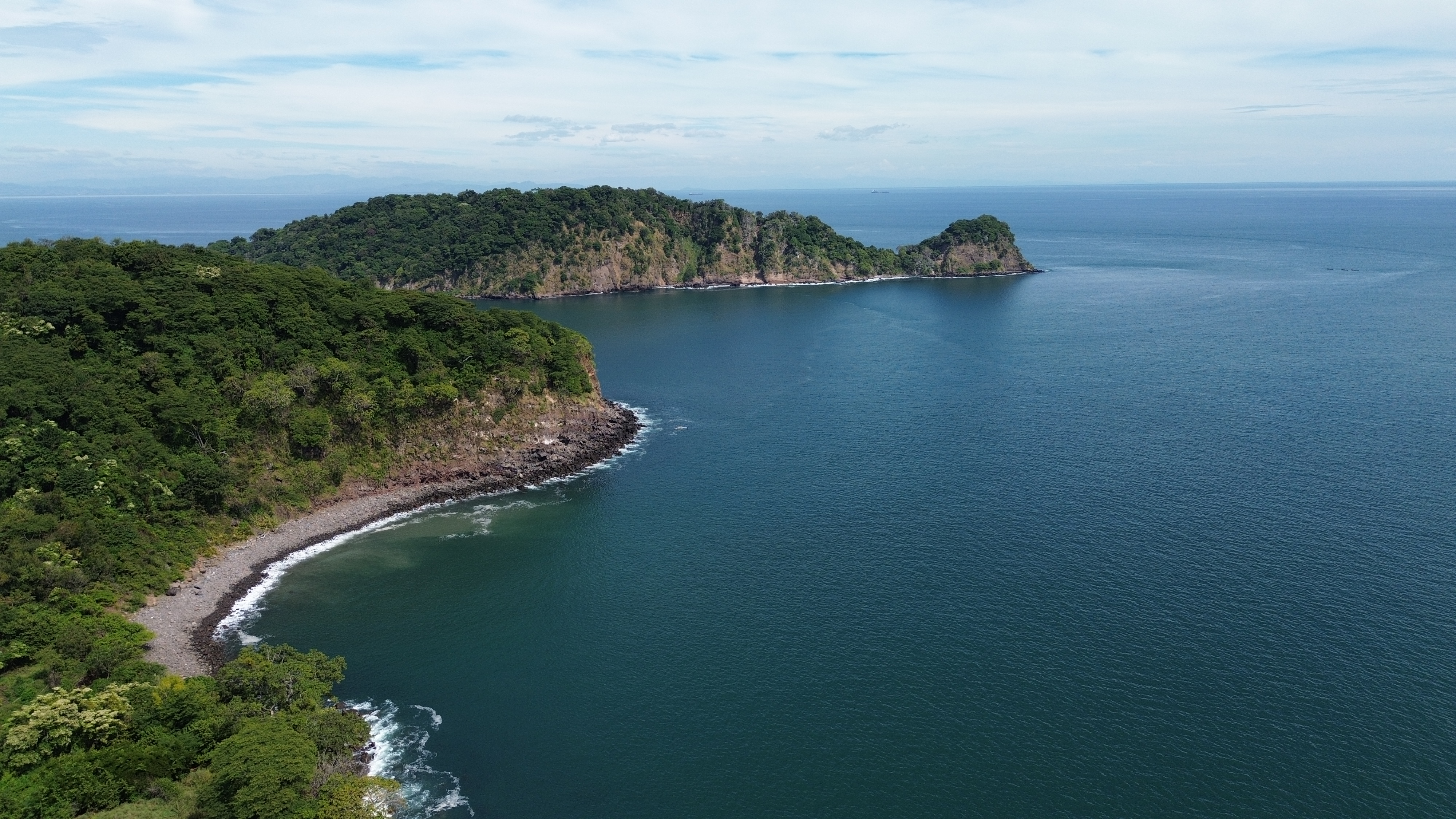 Island of Meanguera and Island of Pirigallo